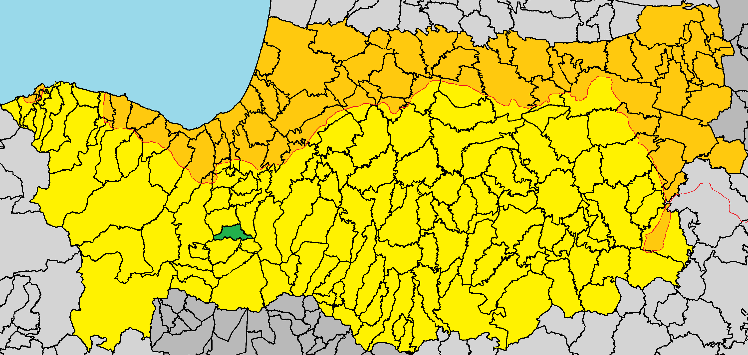 Temvria in Nicosia District.